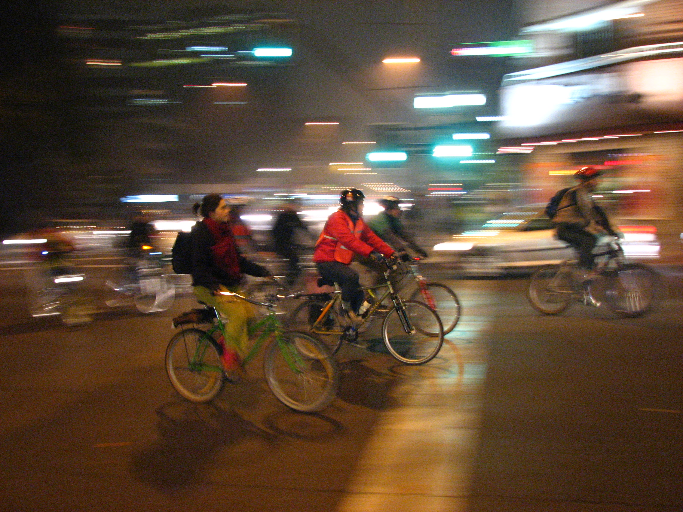 Critical Mass Chile